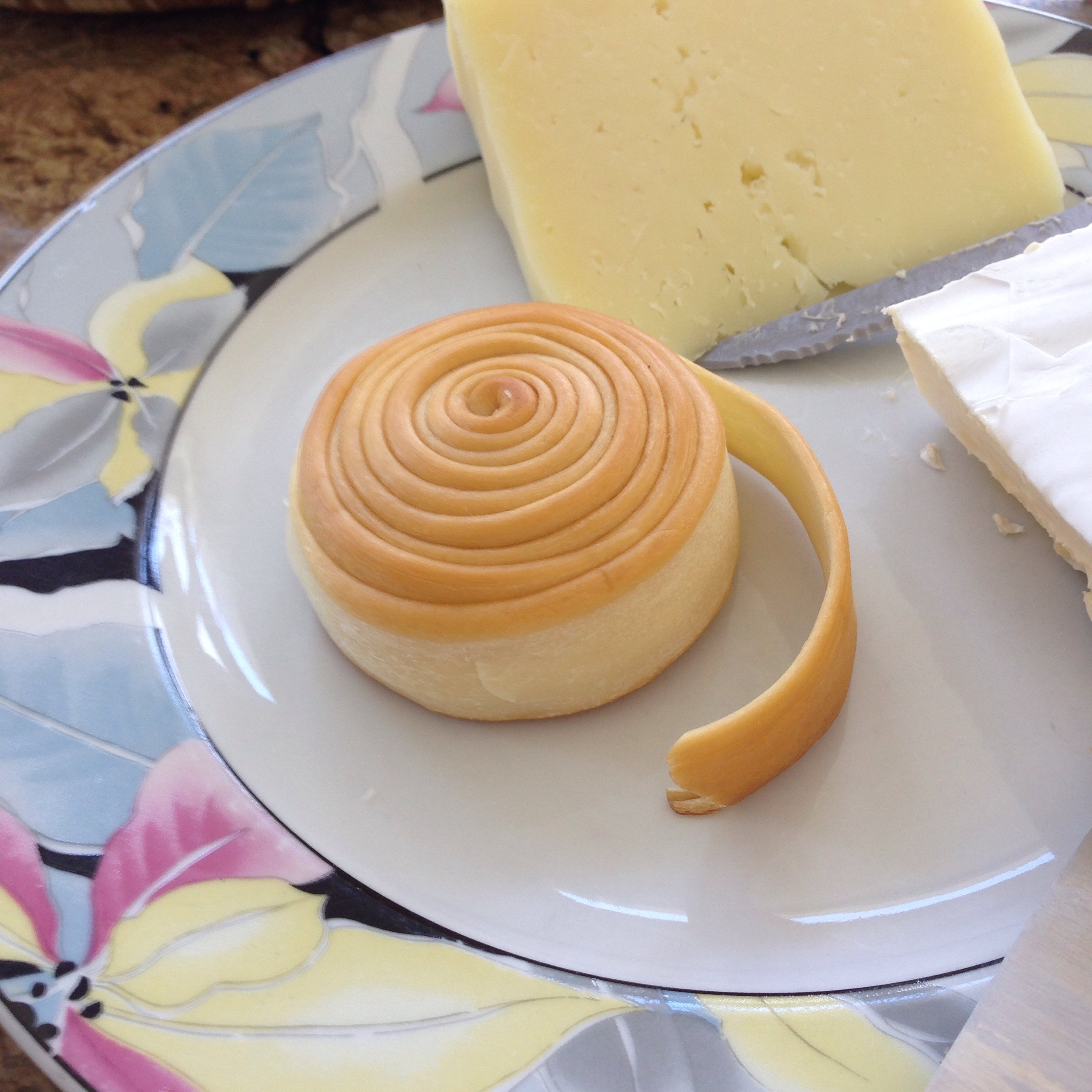 Parenyica cheese